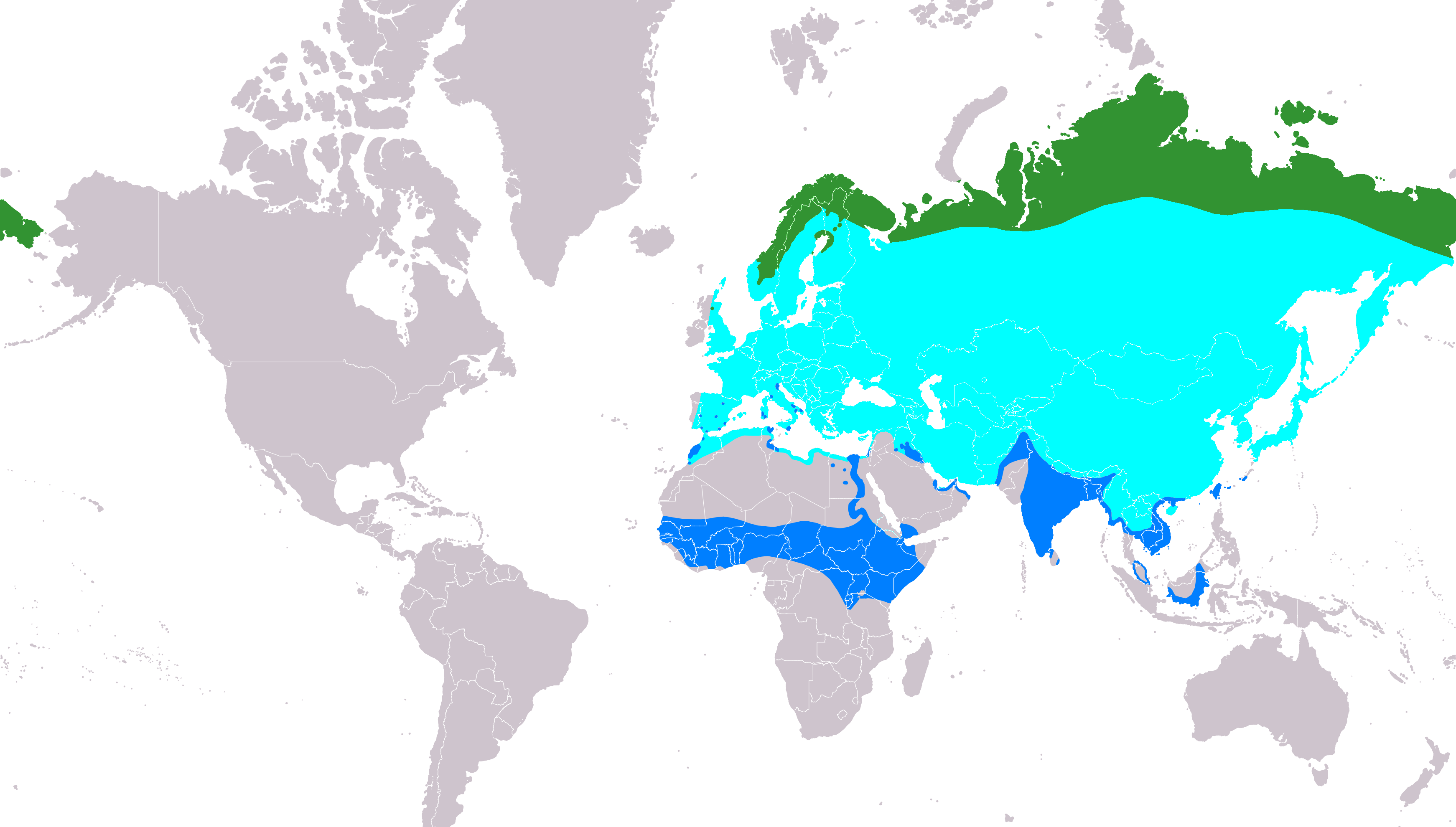 Distribution map of temminck's stint (Calidris temminckii) according to IUCN version 2019-2 ; key: Legend: Extant, breeding (#00FF00), Extant, passage (#00FFFF), Extant, non-breeding (#007FFF)